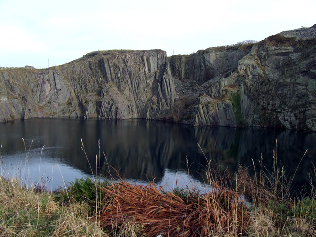 Bryn Hall Quarry. Bryn Hall Quarry above Llanllechid is an old slate quarry that is now flooded, and the water is over 100ft deep